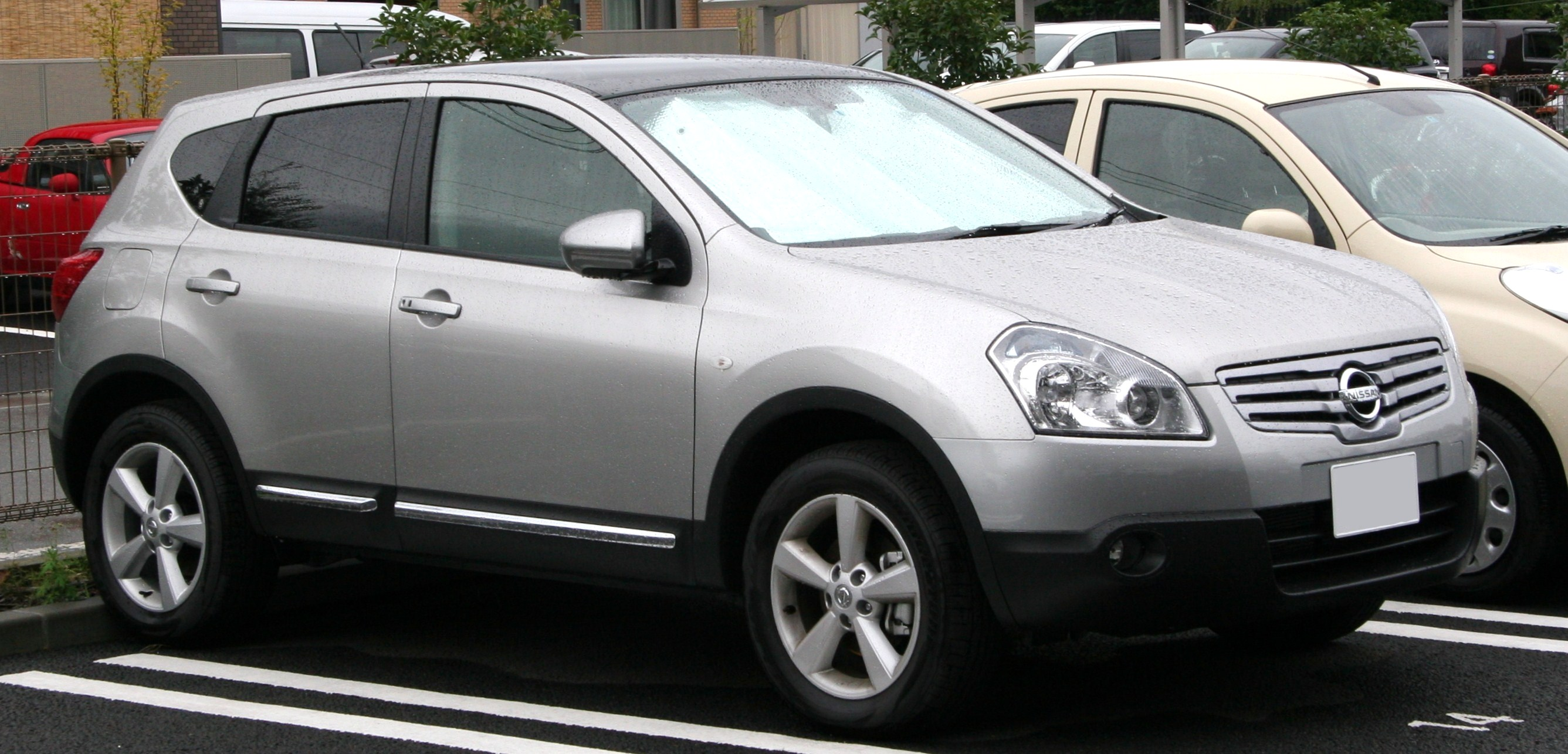 Nissan Dulalis